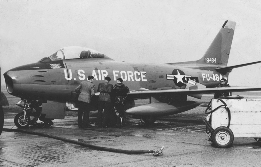 Canadair Sabre 4 in USAF markings before delivery to Italy. Ex RCAF 19484. Manchester (Ringway) Airport.